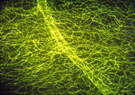 Sympatheic axons in rat iris vizualized by formaldehyde fluorescence